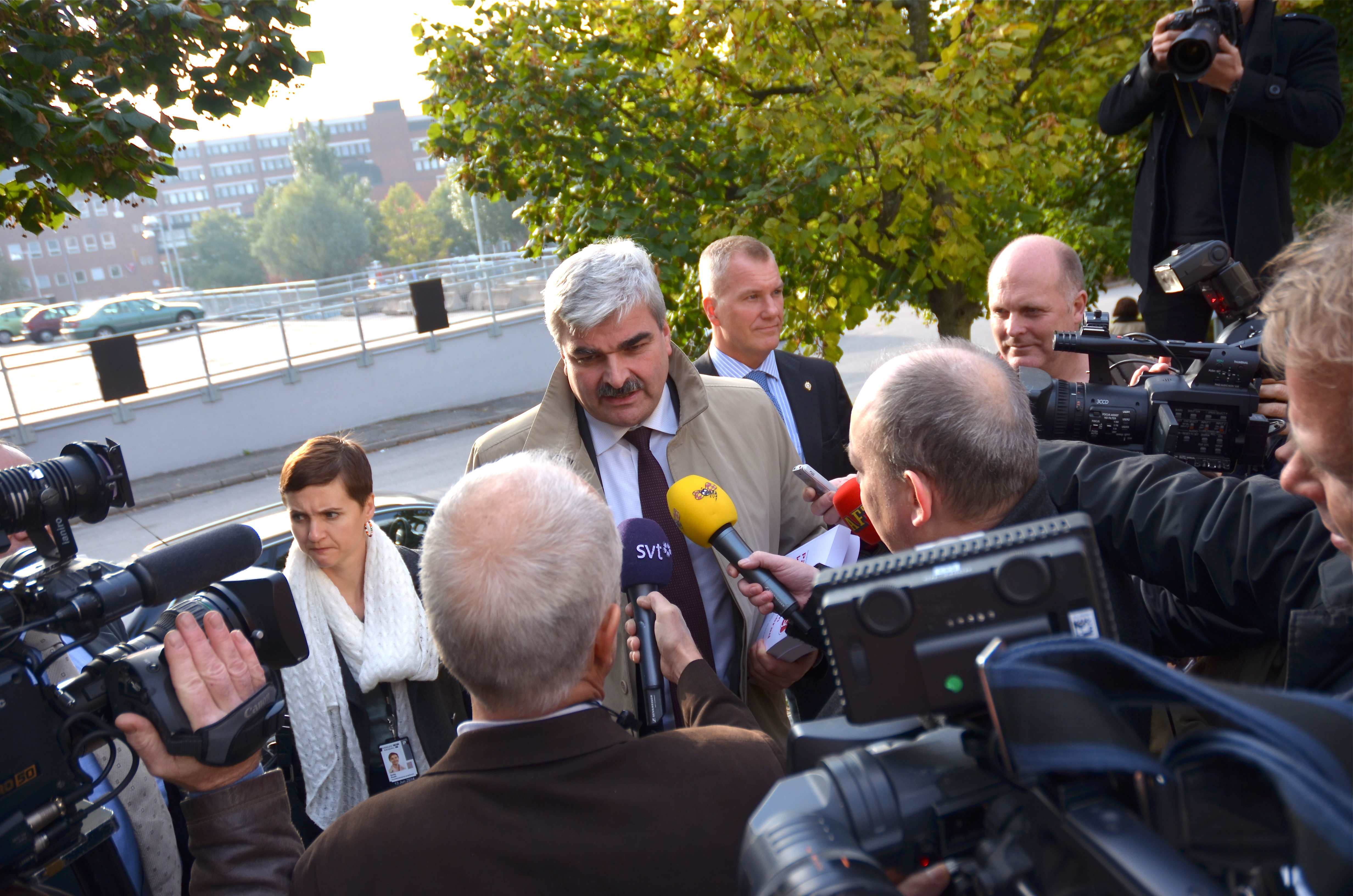 Social Democratic party leader Håkan Juholt visit ABF in Sundbyberg October 17, 2011 during his "canossa tour" for his "rent allowance affair" that month. Media call-up is in search of answers.